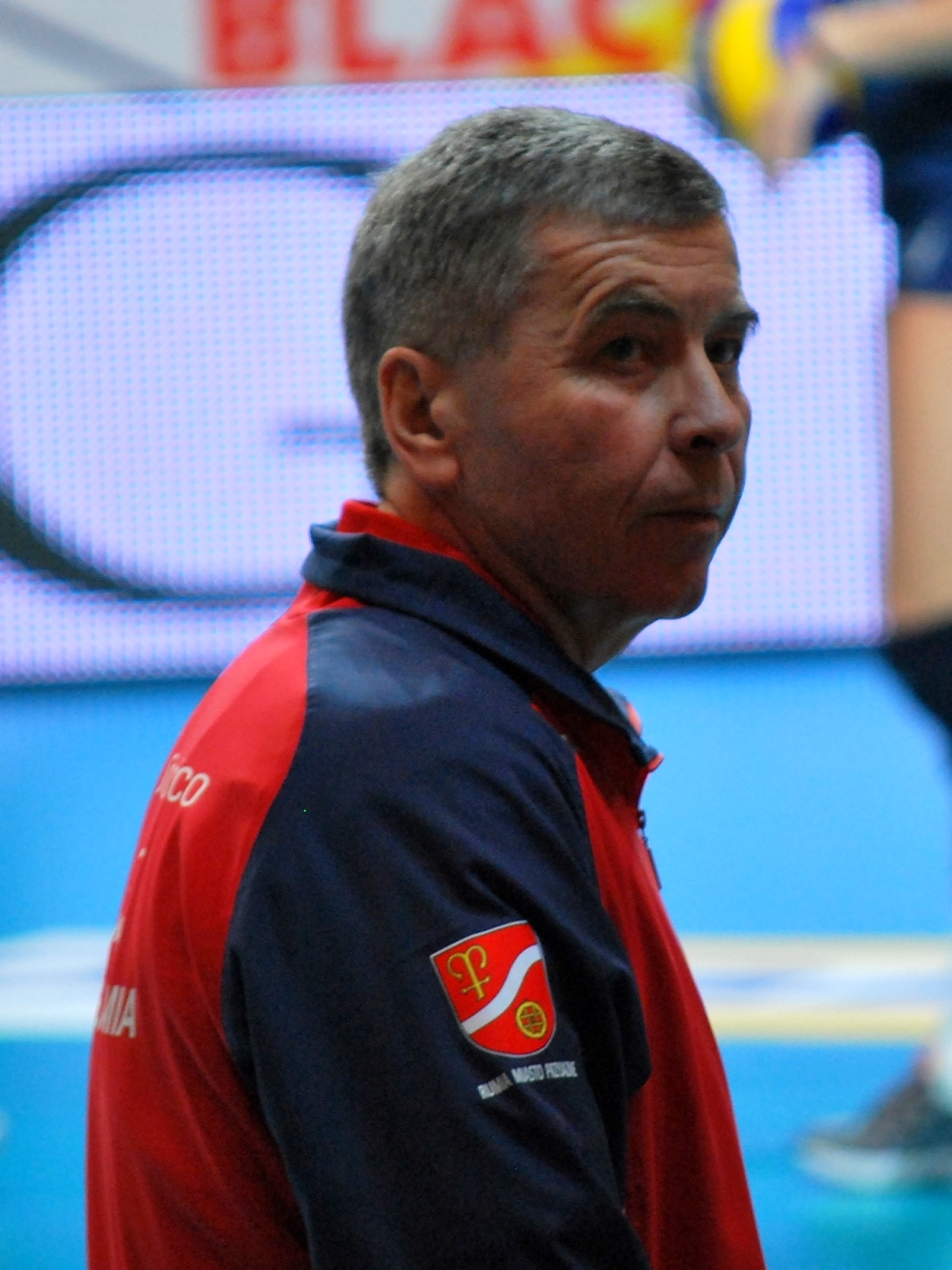 Jerzy Skrobecki, polish volleyball coach